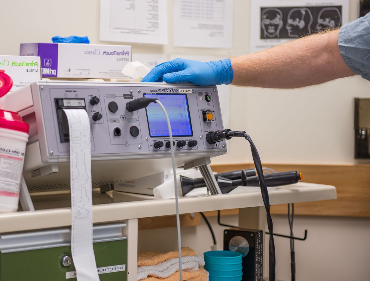 Photo of a MECTA spECTrum 5000Q in a modern ECT Suite